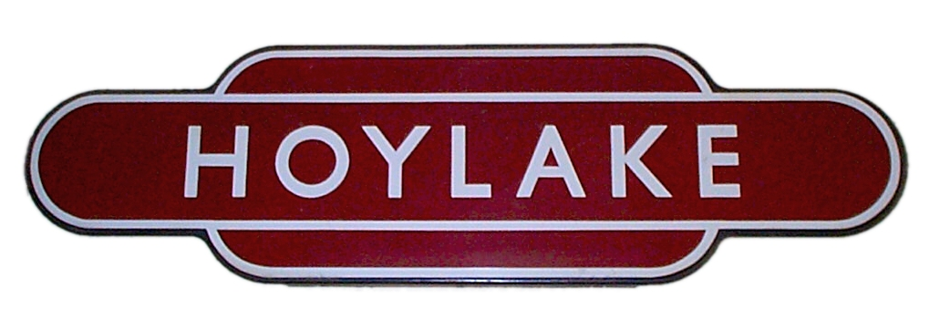 British Railways London Midland Region station totem for Hoylake.jpg